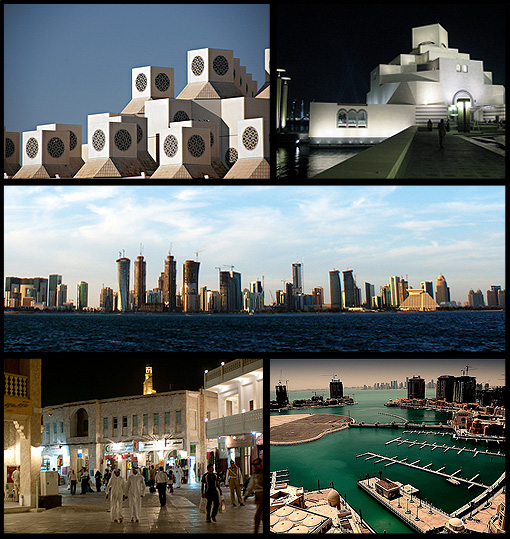 Images used - all under CC licenses from Flickr: by fortes by Pedronet by Sarz.K by joi by AgImOmOTO 255